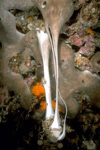 Chondrosia reniformis Nardo, 1847